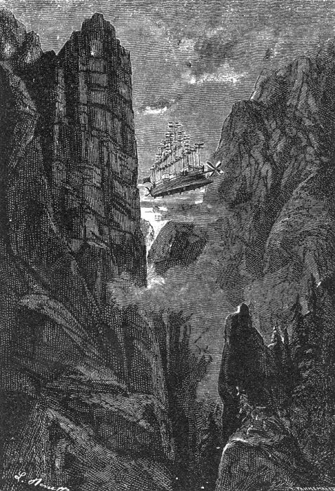 An illustration from Jules Verne's novel "Robur the Conqueror" drawn by Léon Benett.